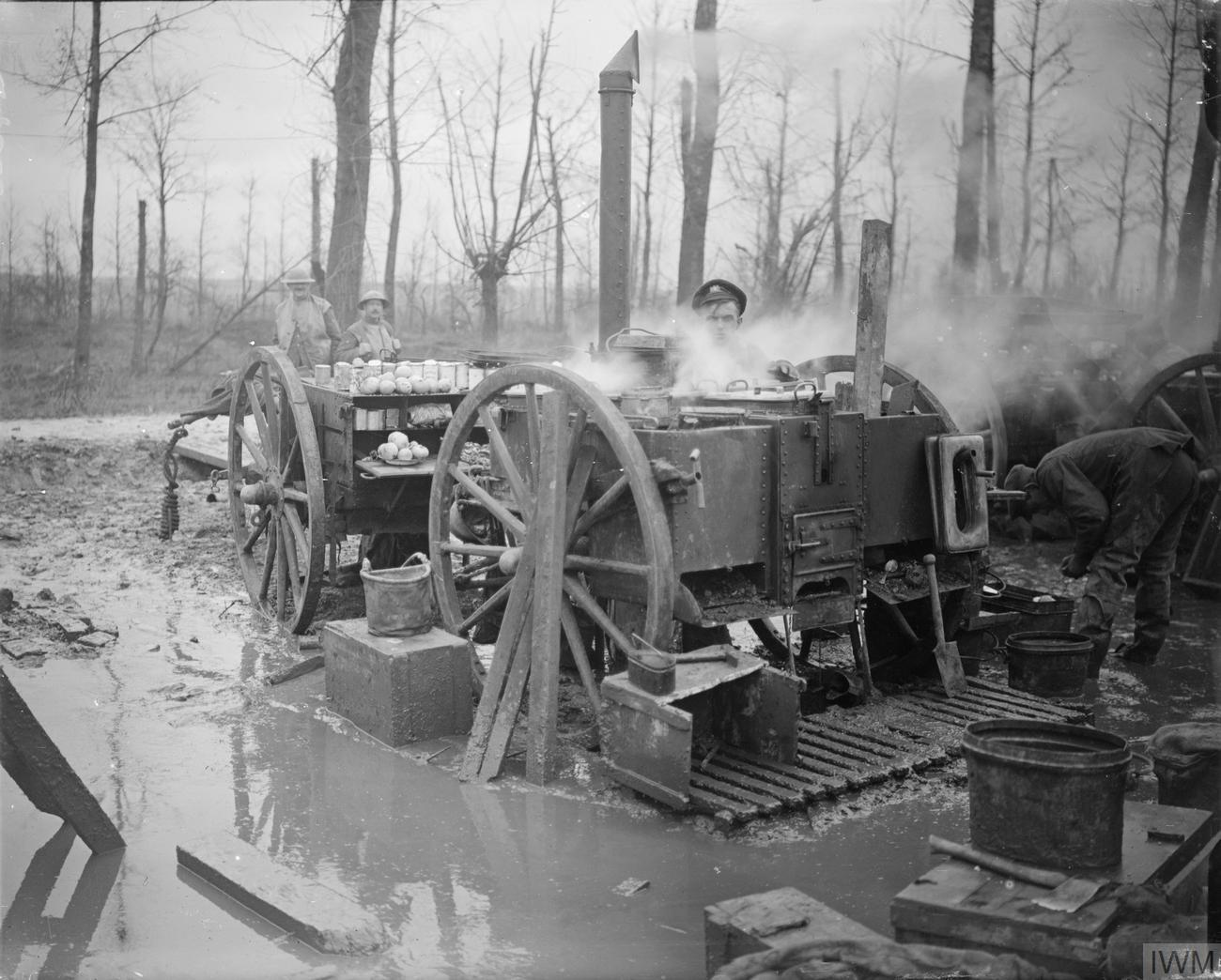 The Battle of the Somme, July-november 1916 Battle of the Ancre. Field kitchen of the 2nd Battalion of the Manchester Regiment on water-logged site. Near St.Pierre Divion, November1916.